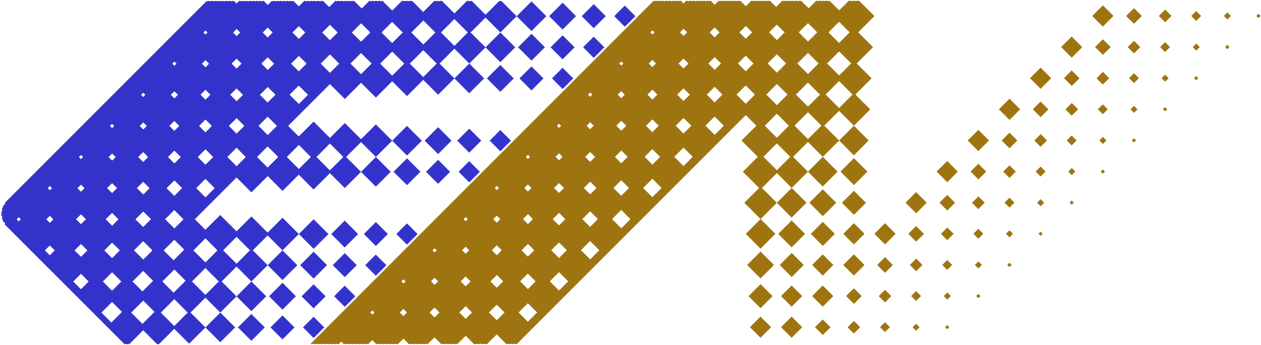 EuroNight logo